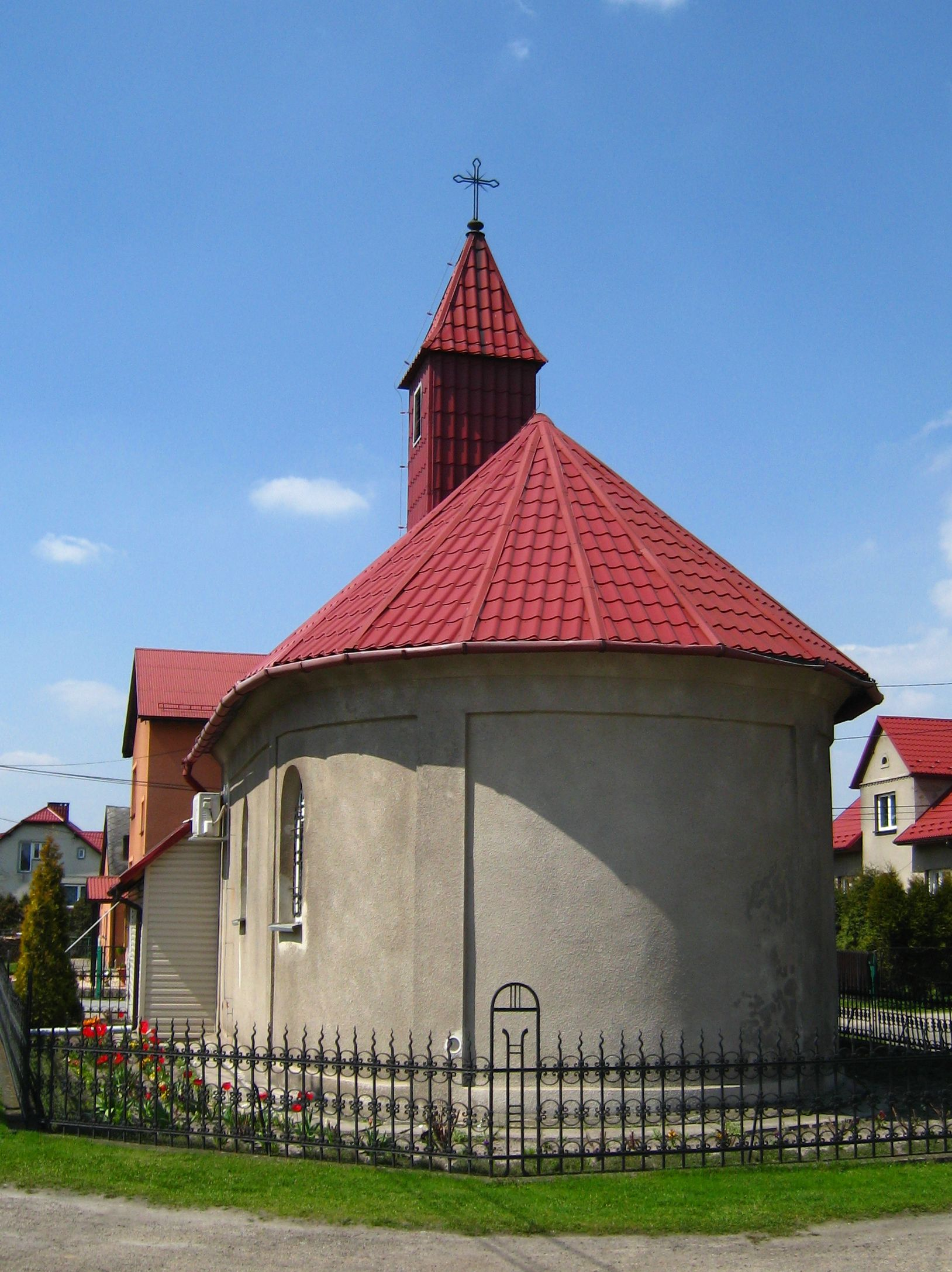 Church in Gromiec village, near Oswiecim Lesser Poland